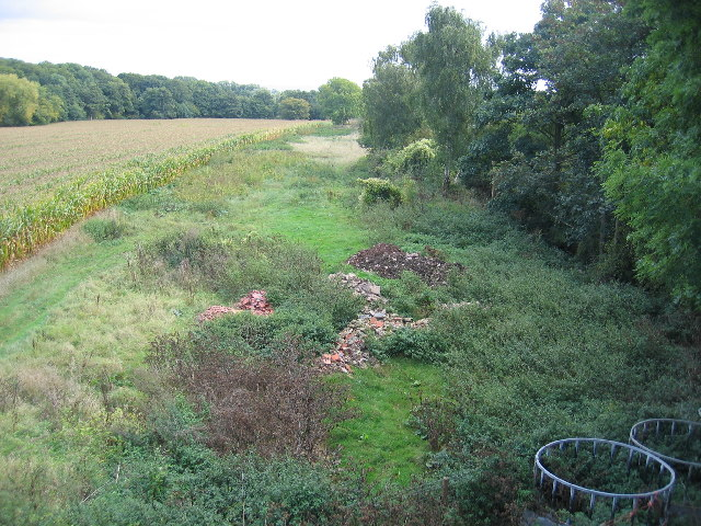 Site of Blaisdon Halt. Seen looking east from the intact road bridge, this was the first stop on the Gloucester - Hereford line after the junction at Grange Court. The halt closed, along with the end of passenger services on the line on 31st October 1964.